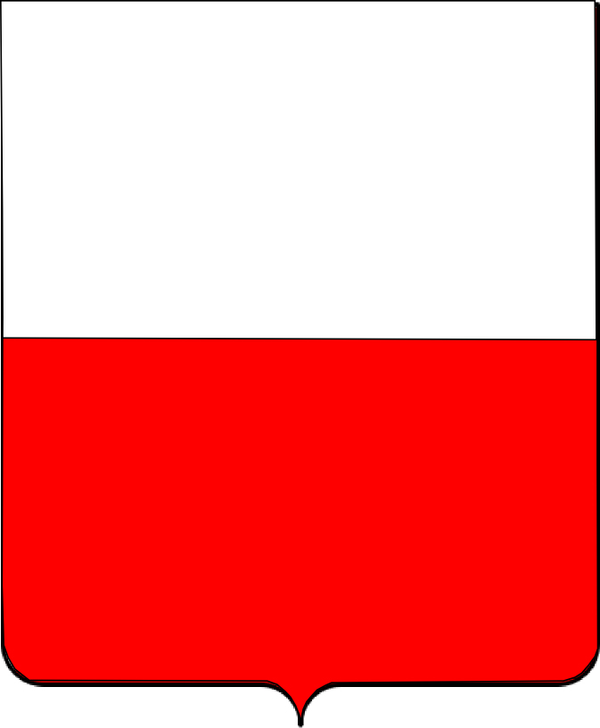 Republic of Lucca shield